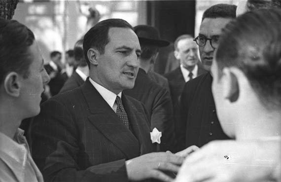 Jose Antonio Agirre Lekube, basque president during Spanish Civil War, in his exile.